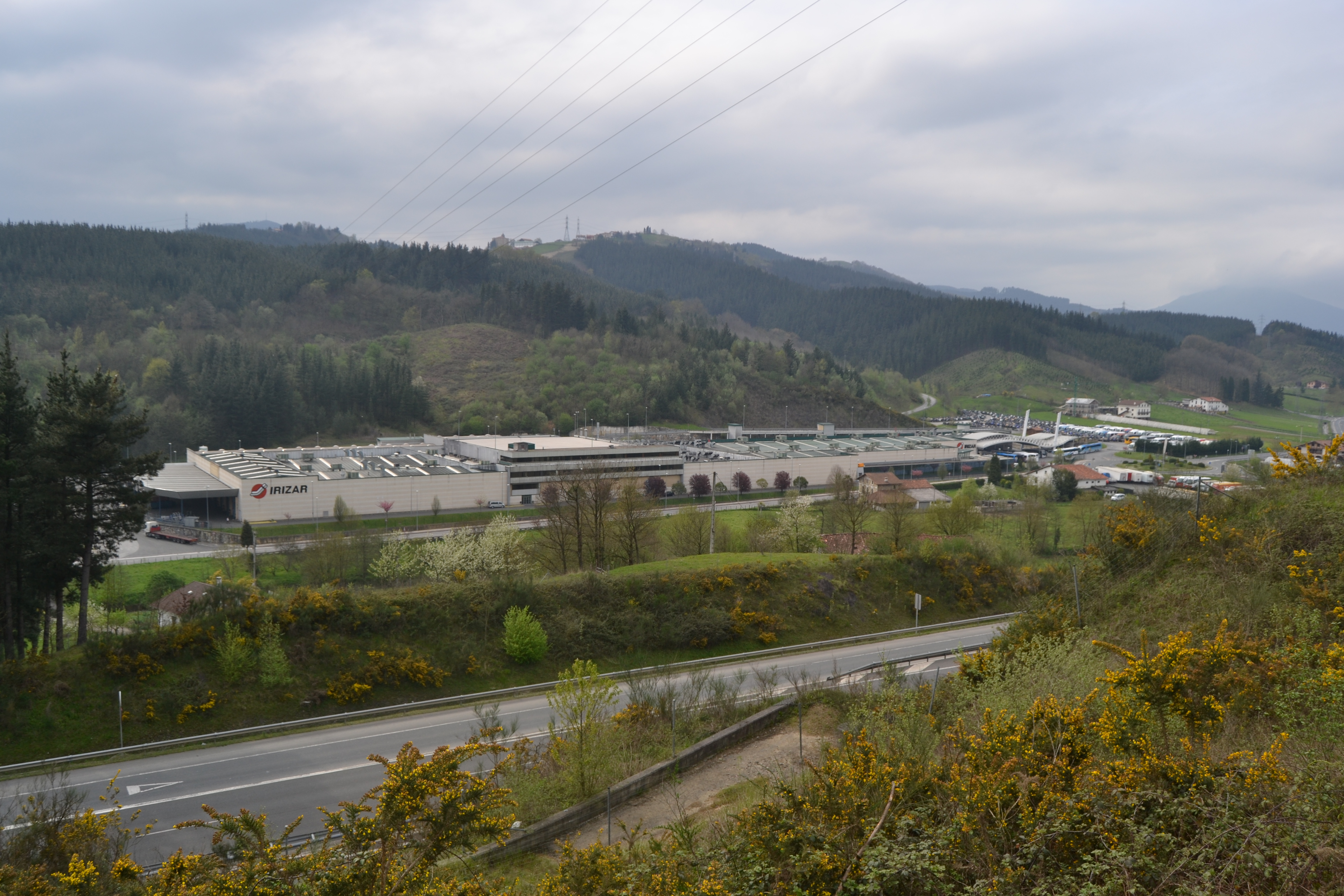 Irizar factory. Ormaiztegi. Gipuzkoa, Basque Country.